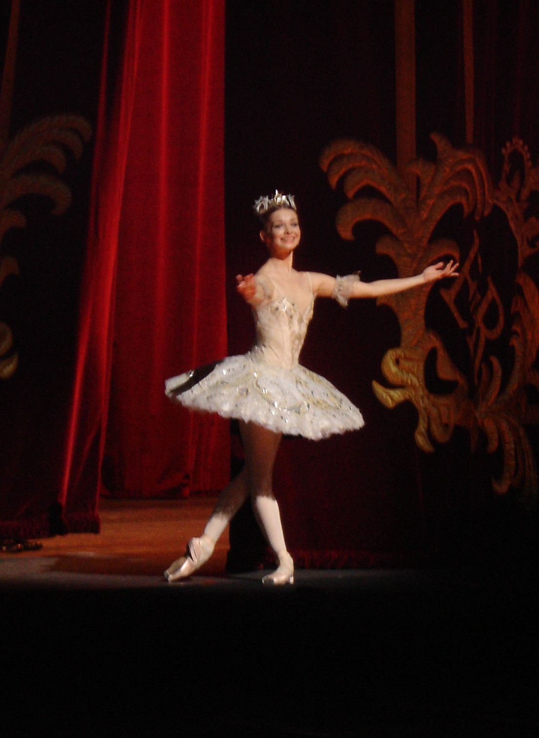 Evgenia Obraztsova at Covent Garden, after dancing 'The Sleeping Beauty' on 14th November, 2009.